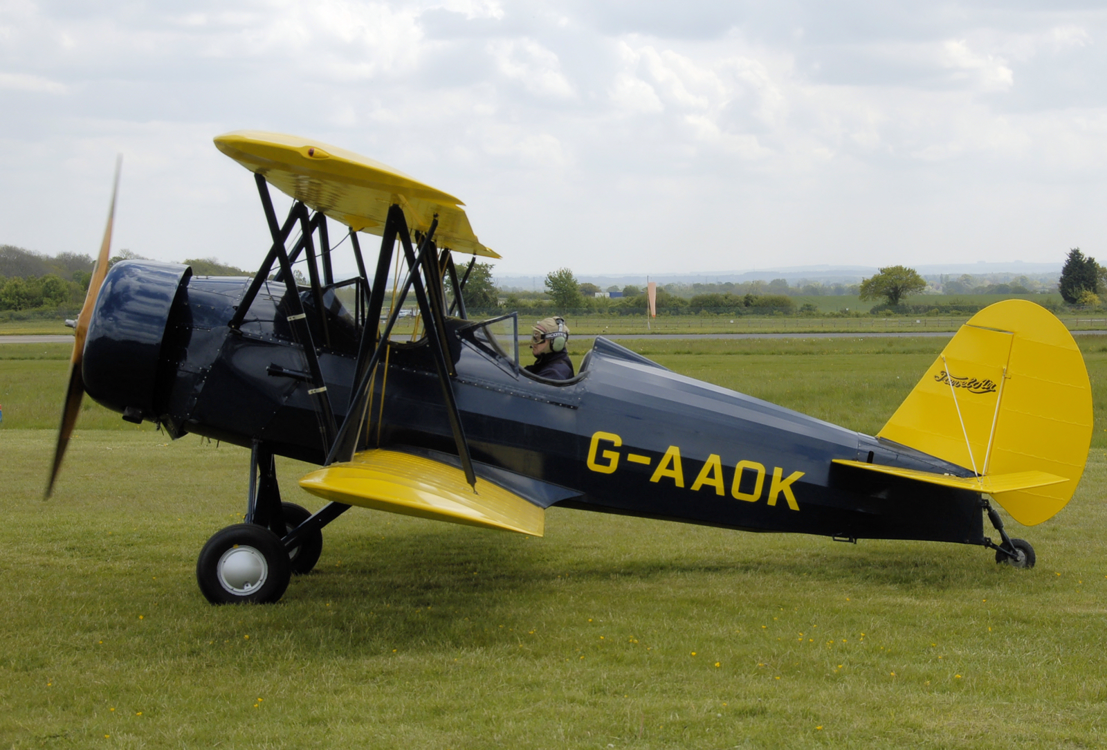 Curtiss-Wright Travel Air CW-12Q (G-AAOK) at the Great Vintage Flying Weekend rally at Cotswold Airport, Kemble, Gloucestershire, England.